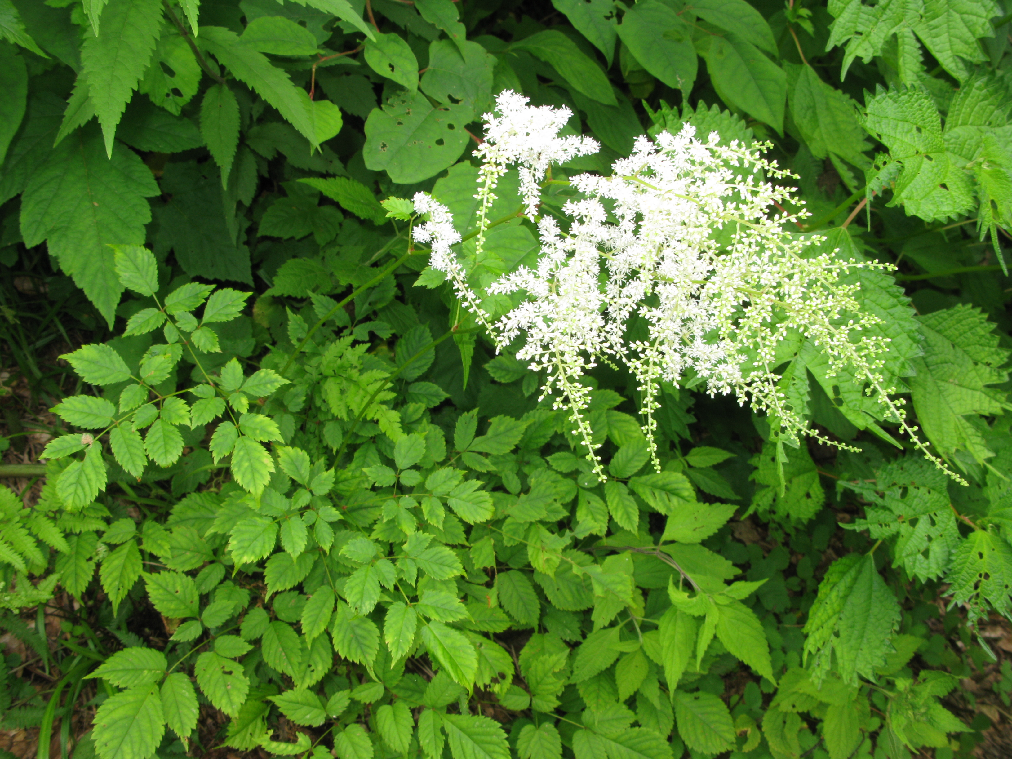 Astilbe odontophylla, Aizu area, Fukushima pref., Japan